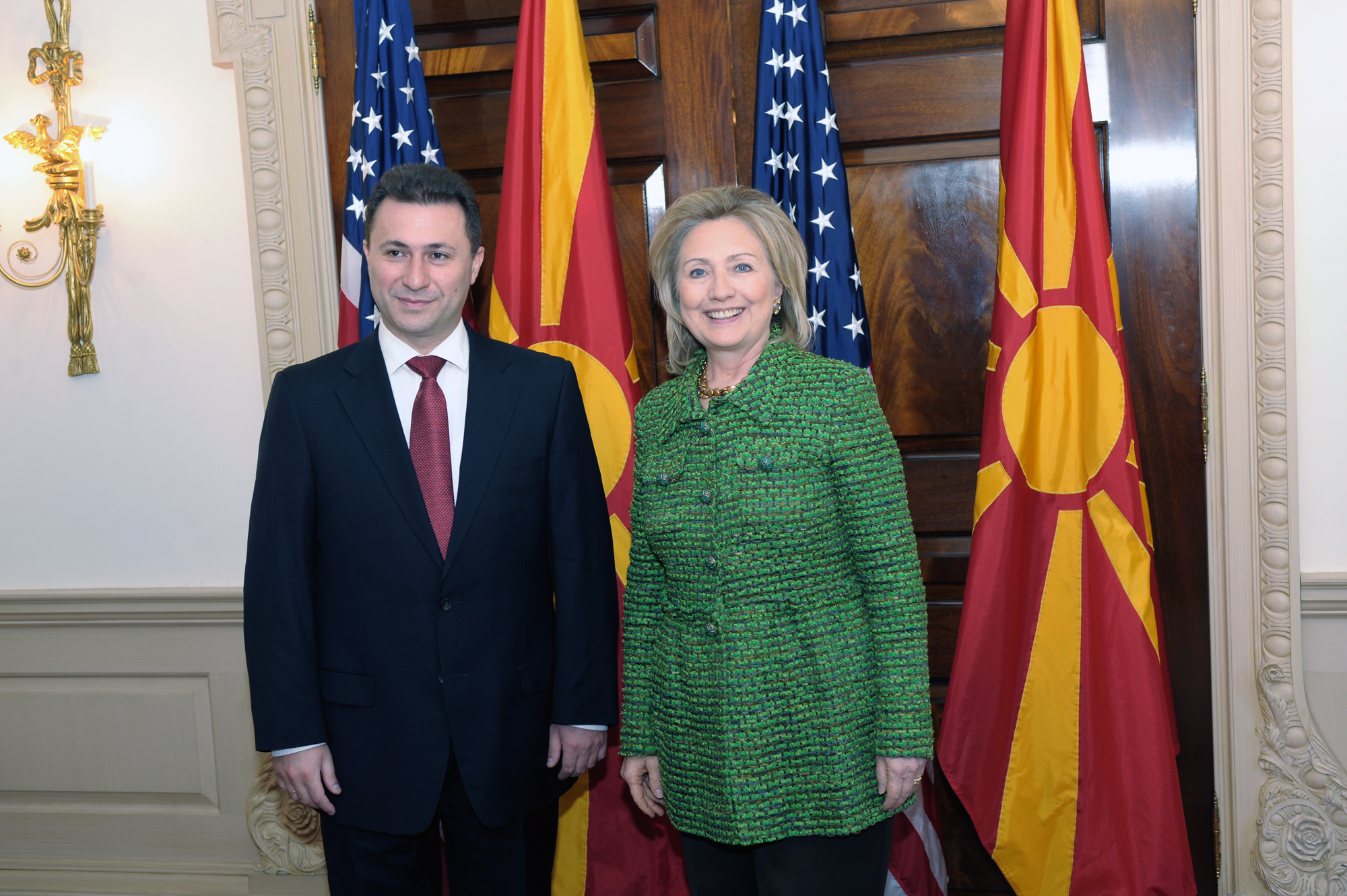 U.S. Secretary of State Hillary Rodham Clinton poses for a photo with Macedonian Prime Minister Nikola Gruevski after their bilateral meeting at the U.S. Department of State in Washington, D.C., on February 16, 2011. [State Department photo/ Public Domain]